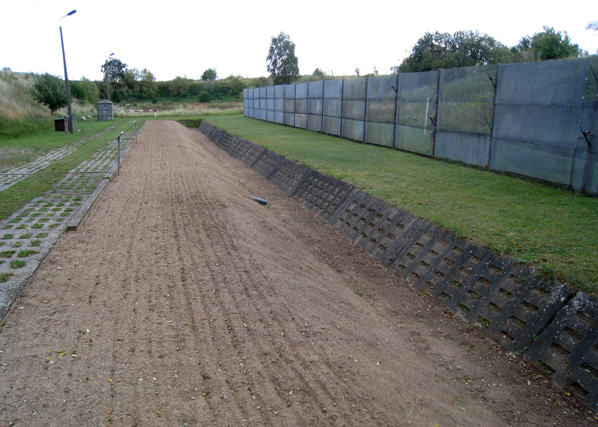 Reconstructed inner German border fortifications at the Grenzhus Schlagsdorf. Left to right: Kolonnenweg; control strip; anti-vehicle ditch; border fence.